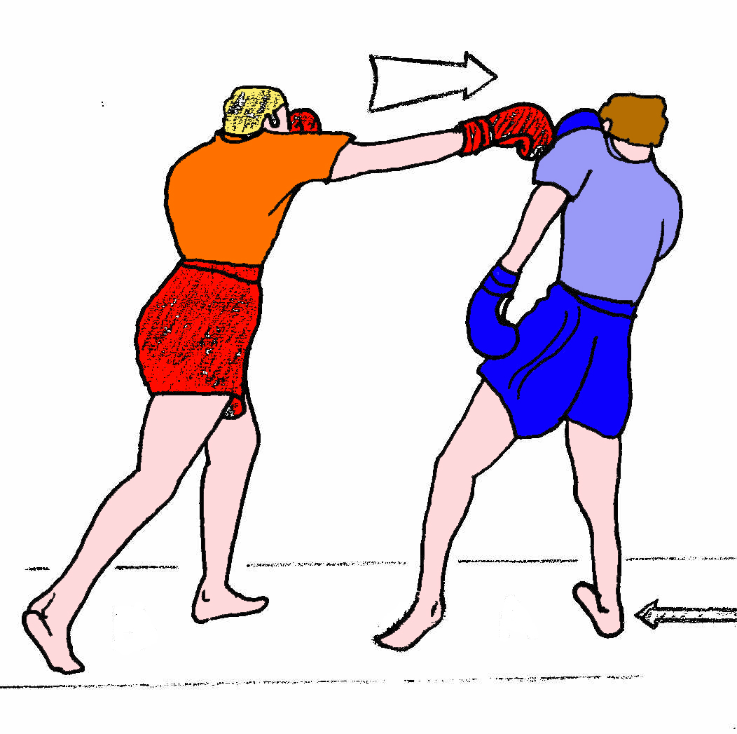 Blocking